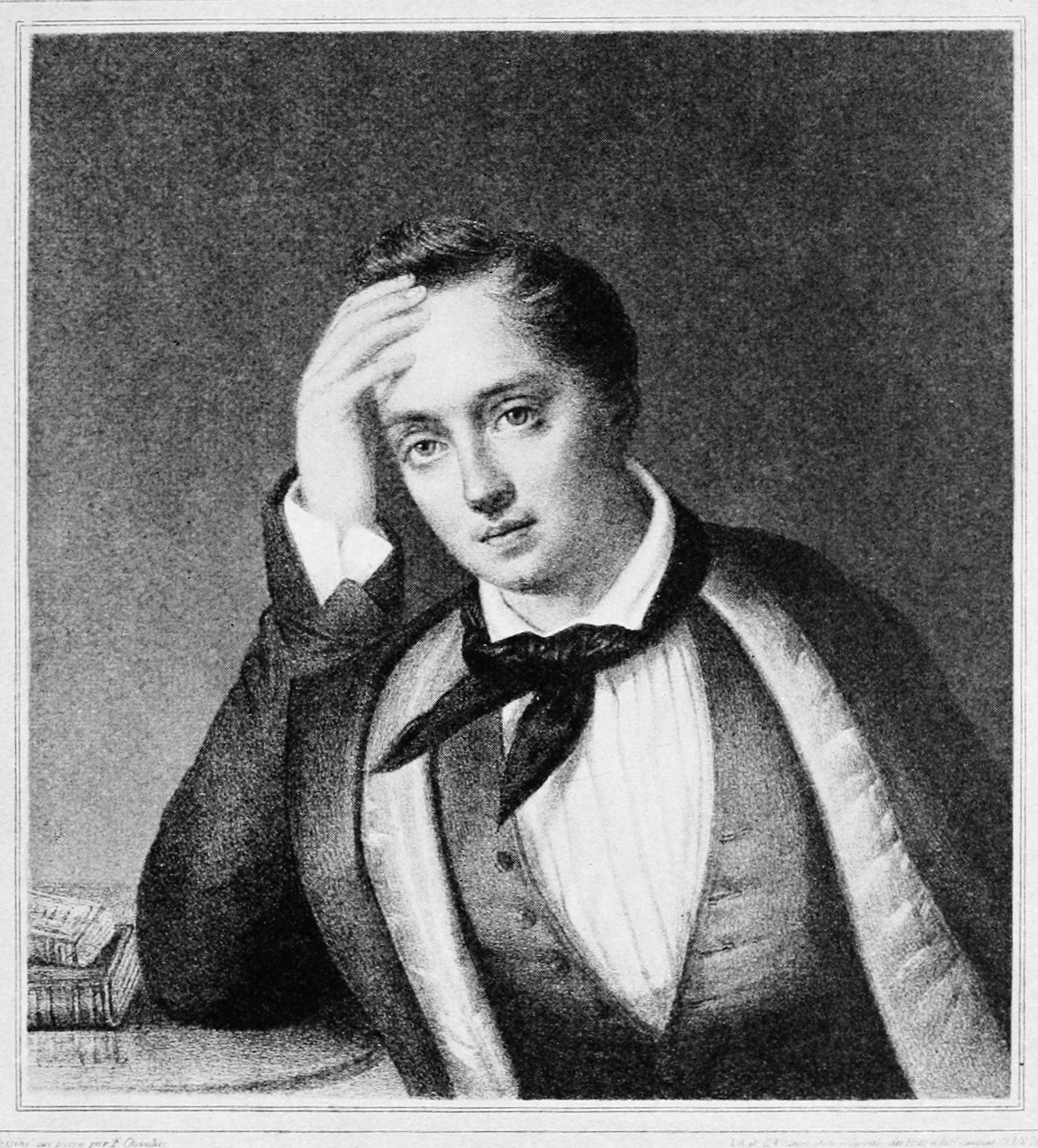 Portrait of Evgeny Boratynsky.